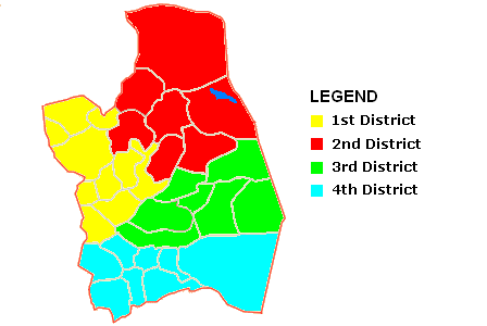 A map of Nueva Ecija with all 4 Legislative Districts highlited.